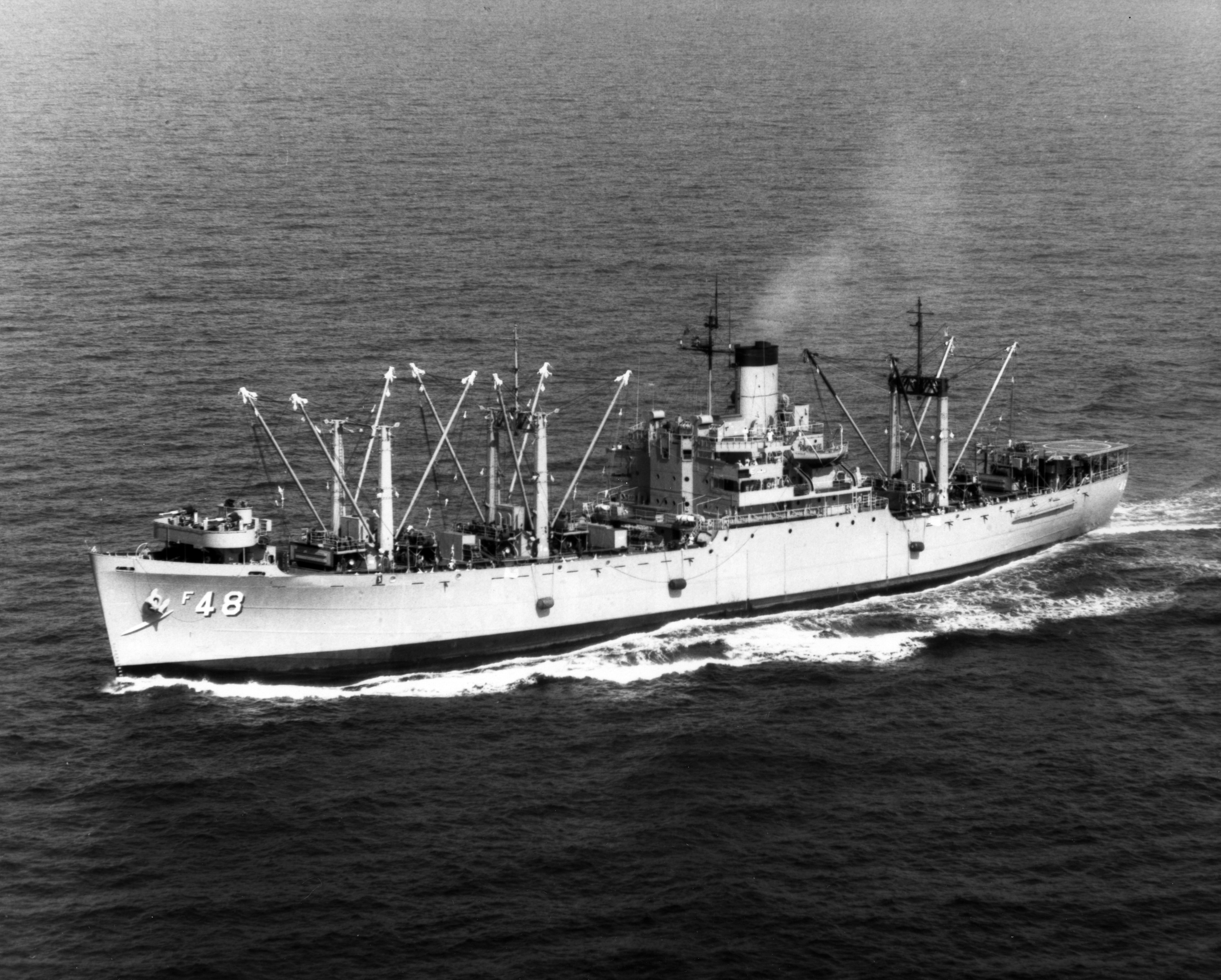 The U.S. Navy stores ship USS Alstede (AF-48) underway at sea, in 1966.